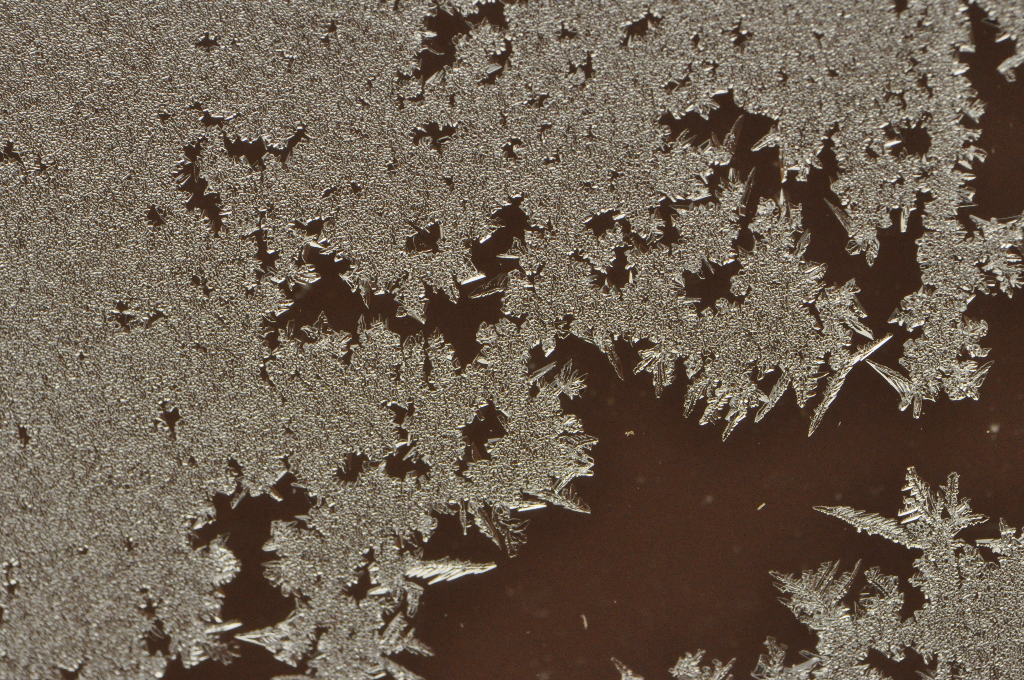 Fern Frost on a Window. Photographed in Colorado Springs, CO